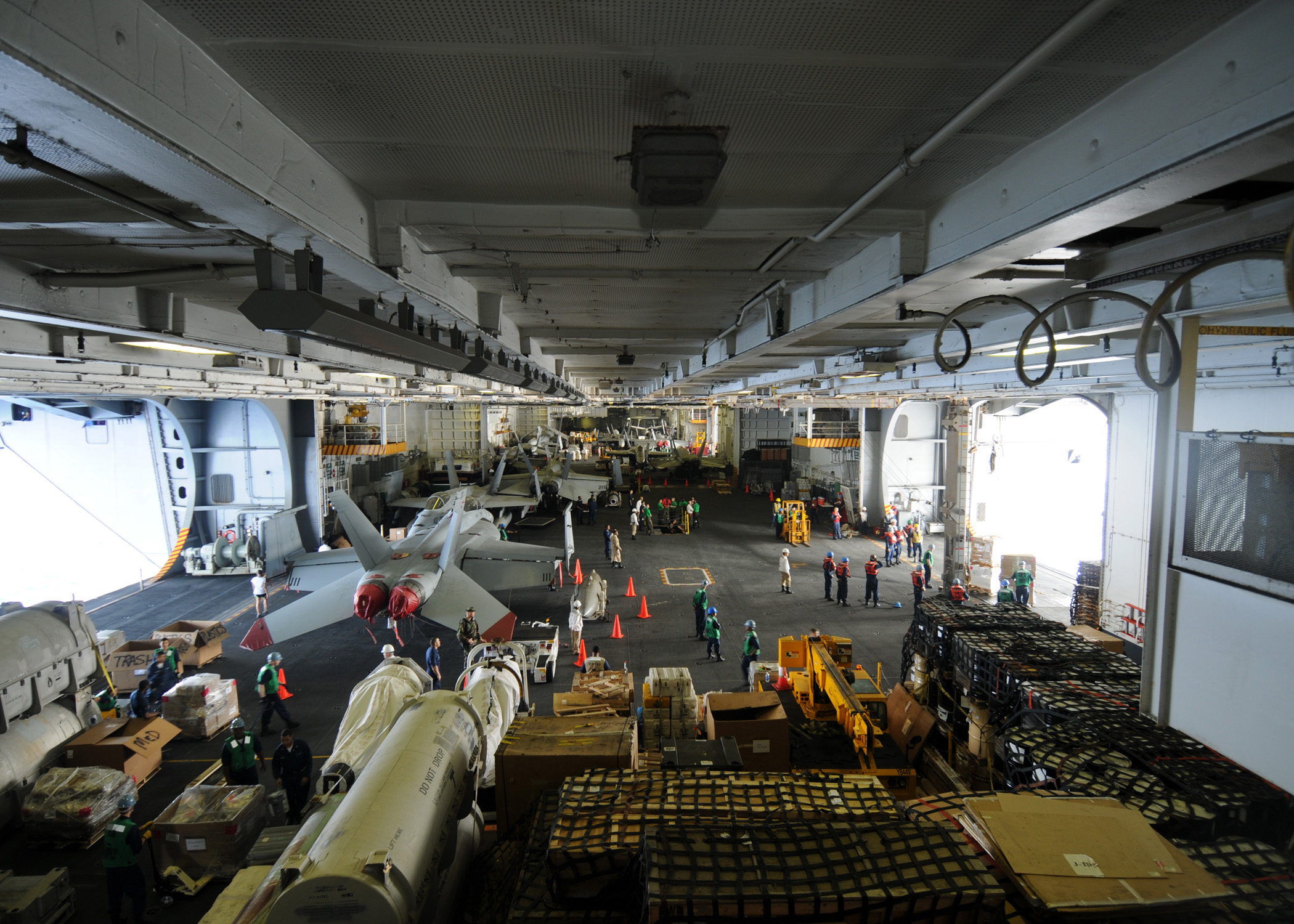 PACIFIC OCEAN (May 29, 2009) Supply and deck department Sailors transfer cargo in the hangar bay of the aircraft carrier USS George Washington (CVN 73) during a replenishment-at-sea with the Military Sealift Command dry cargo/ammunition ship USNS Richard E. Byrd (T-AKE 4). George Washington, the Navy's only permanently forward deployed aircraft carrier, is underway conducting a Combat Operations Efficiency evaluation in the western Pacific Ocean. (U.S. Navy photo by Mass Communication Specialist Seaman Christopher S. Harte/Released)